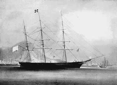 Sea Witch, clipper ship